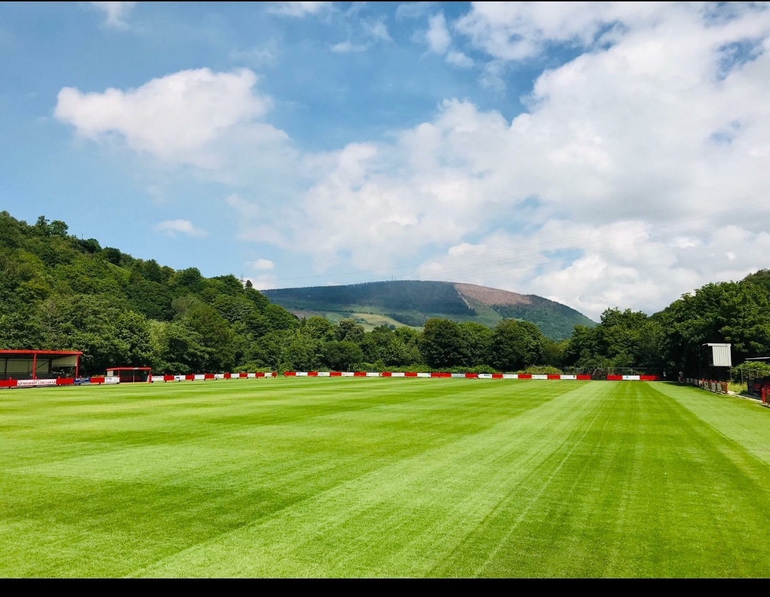 Trefelin BGC Home Ground Ynys Park